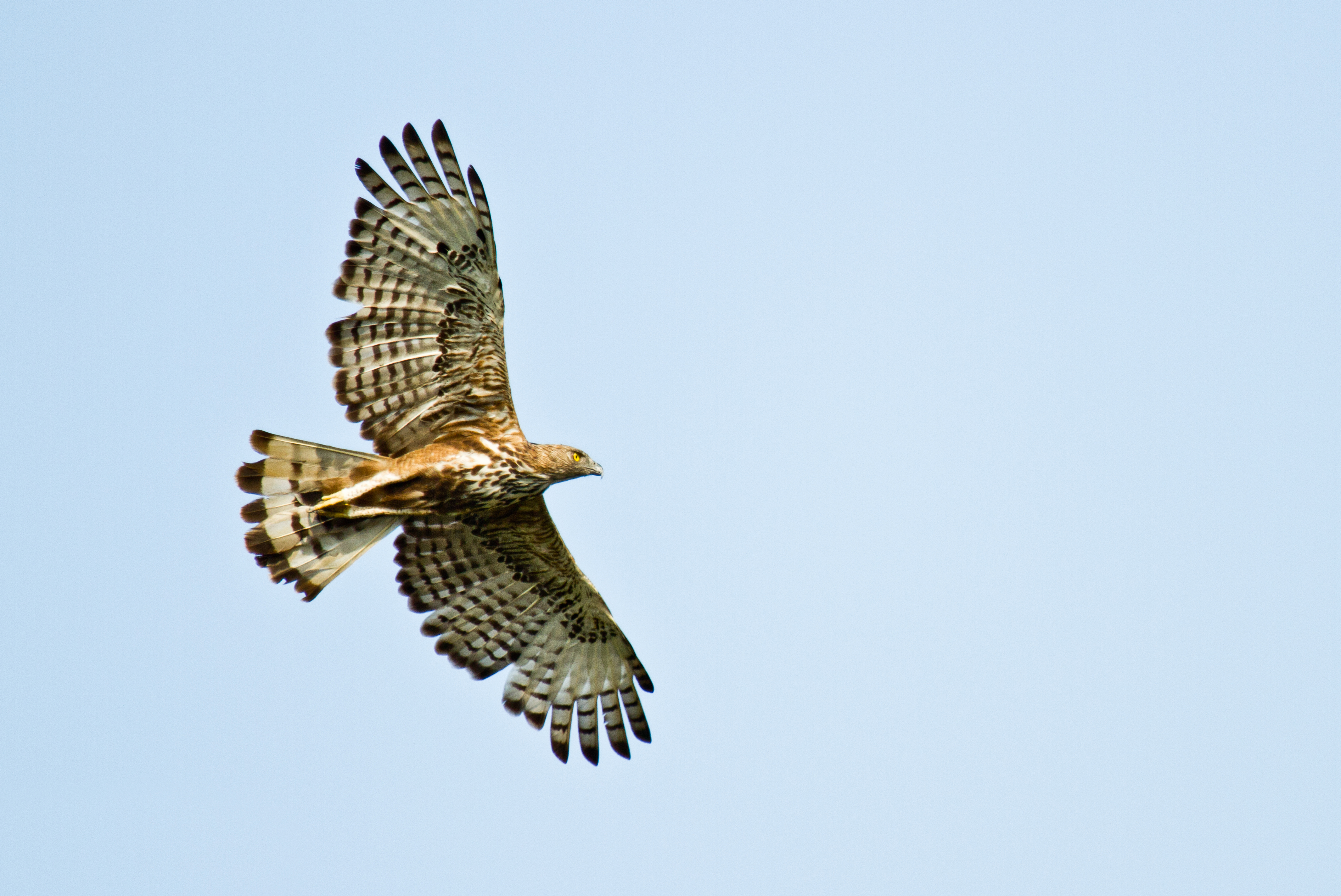 Crested Hawk Eagle Nisaetus cirrhatus, Nilambur, Kerala, India